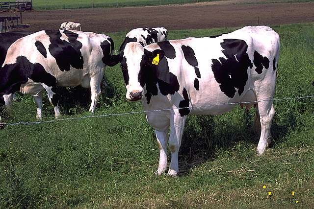 Holstein cows